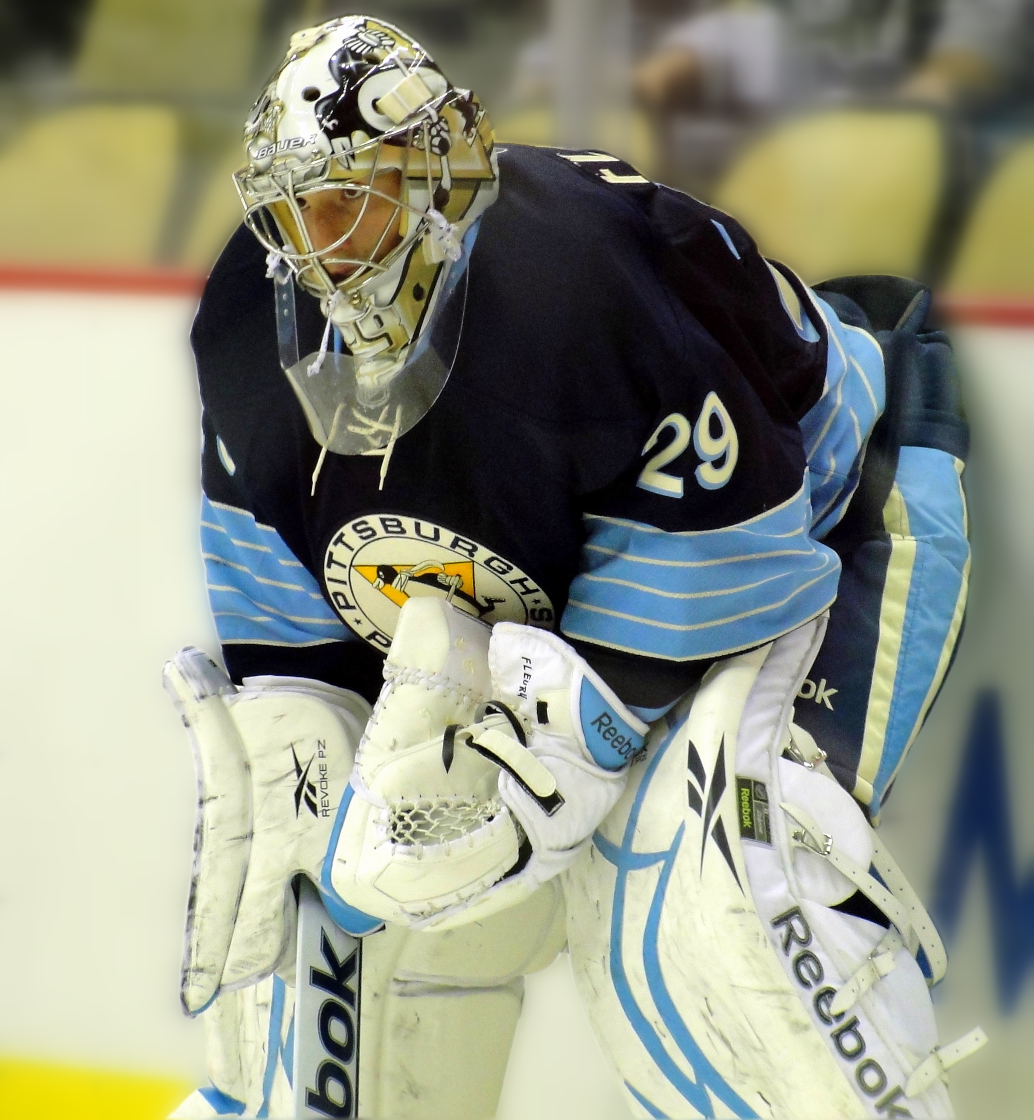 Pittsburgh Penguins goaltender Marc-André Fleury prepares for a February 10, 2011 game against the Los Angeles Kings at Consol Energy Center in Pittsburgh, PA.